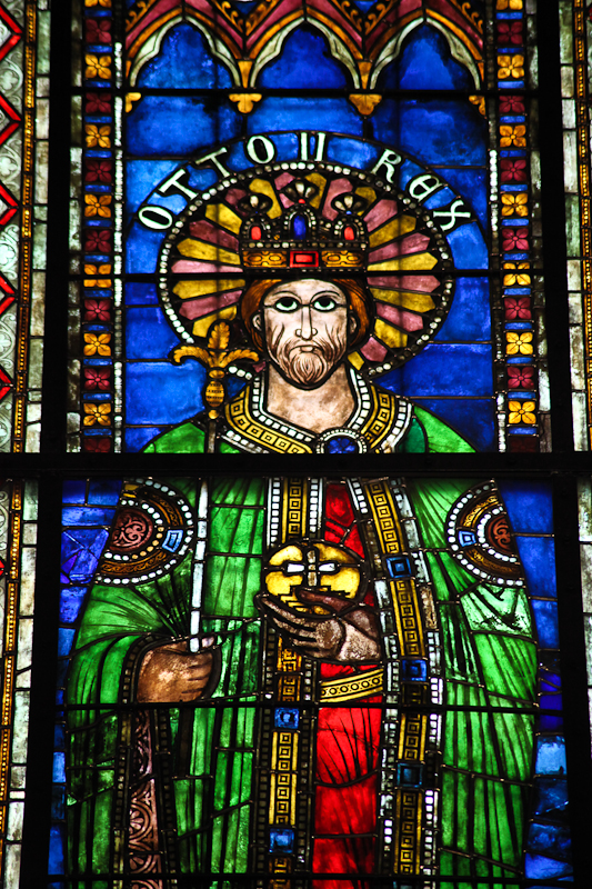 Strasbourg Cathedral - Stained glass window